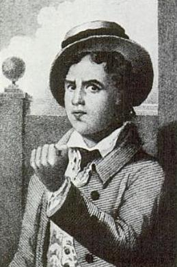 John Edwin (1768 - 1805), british actor.